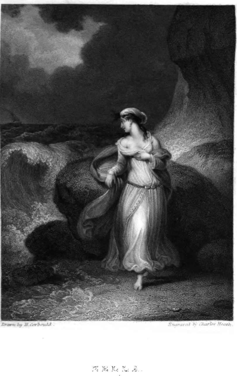 "Zella", image from The Keepsake for 1830, a British literary annual, illustrating the story The Evil Eye by "The Author of Frankenstein" (Mary Shelley).